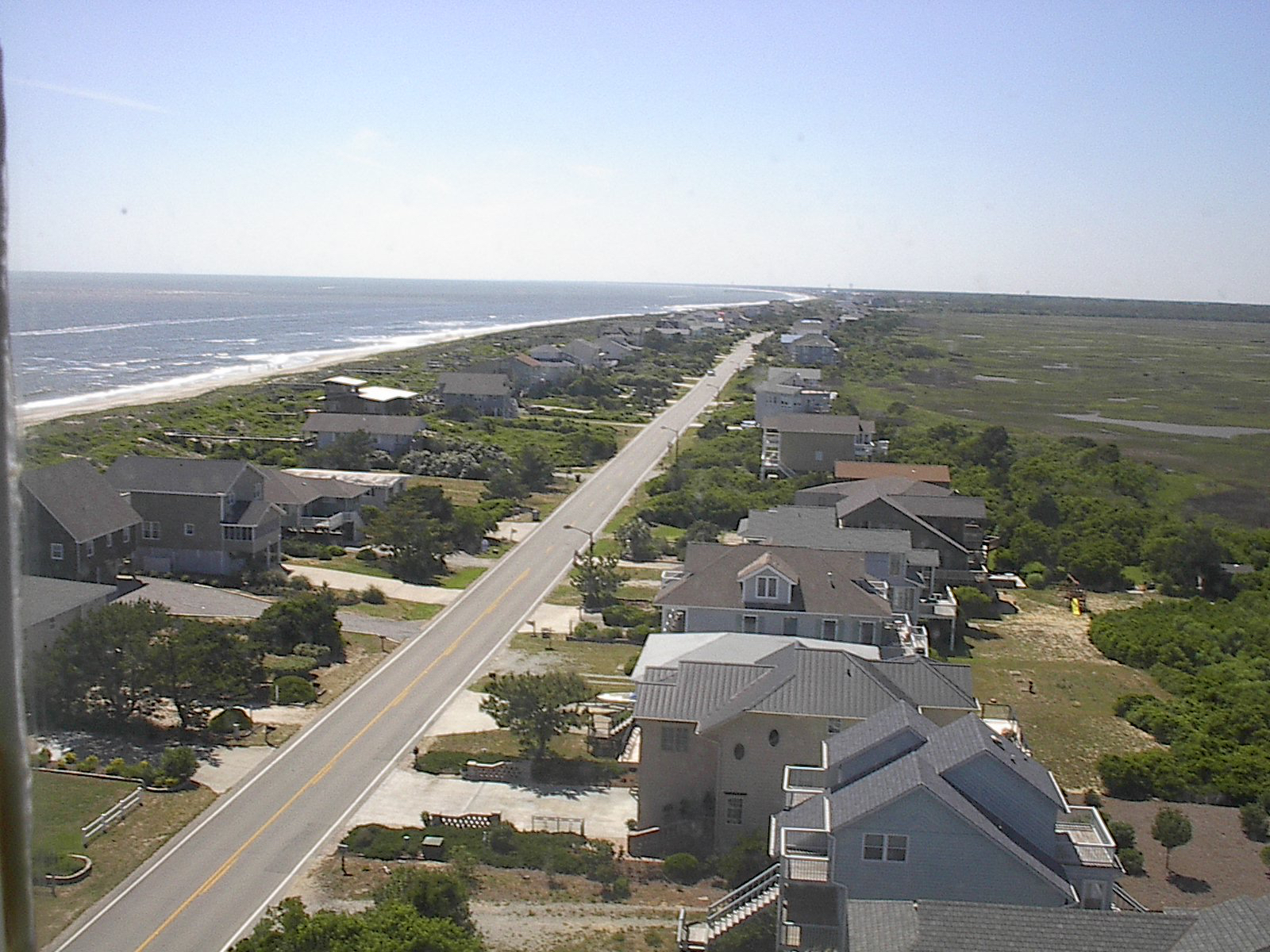 Looking west at Caswell Beach from atop the Oak Island Lighthouse